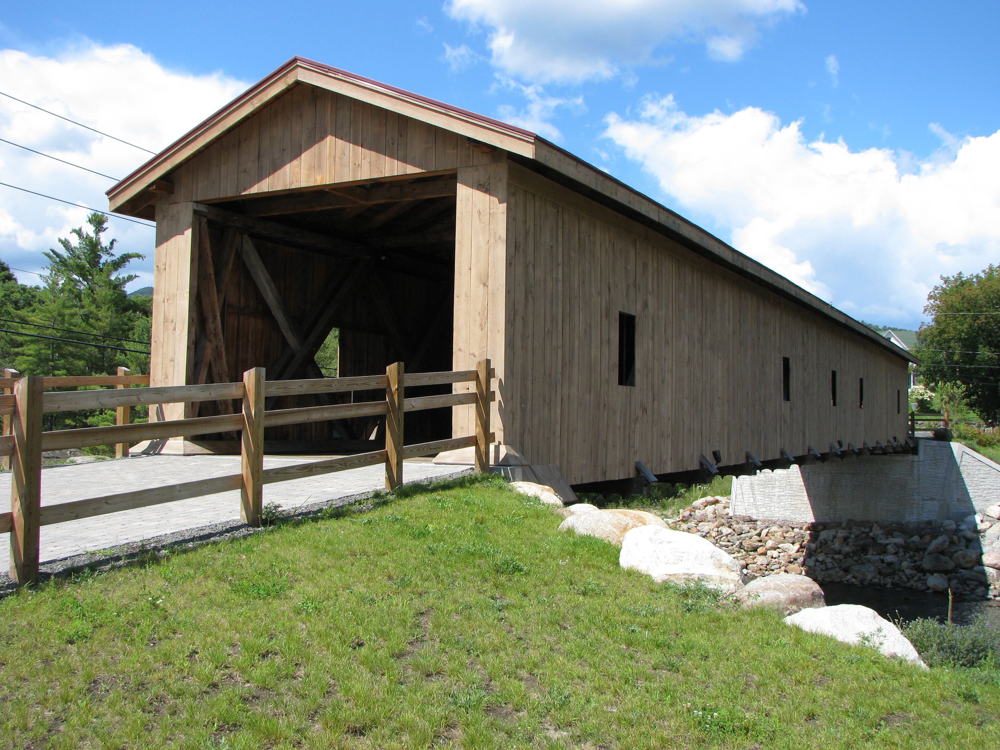 Jay Bridge, Jay, NY